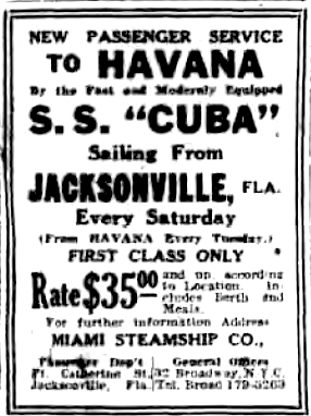 1920 Miami Steamship Company advertisement in New York Evening Post for S.S. CUBA from Jacksonville, Florida.